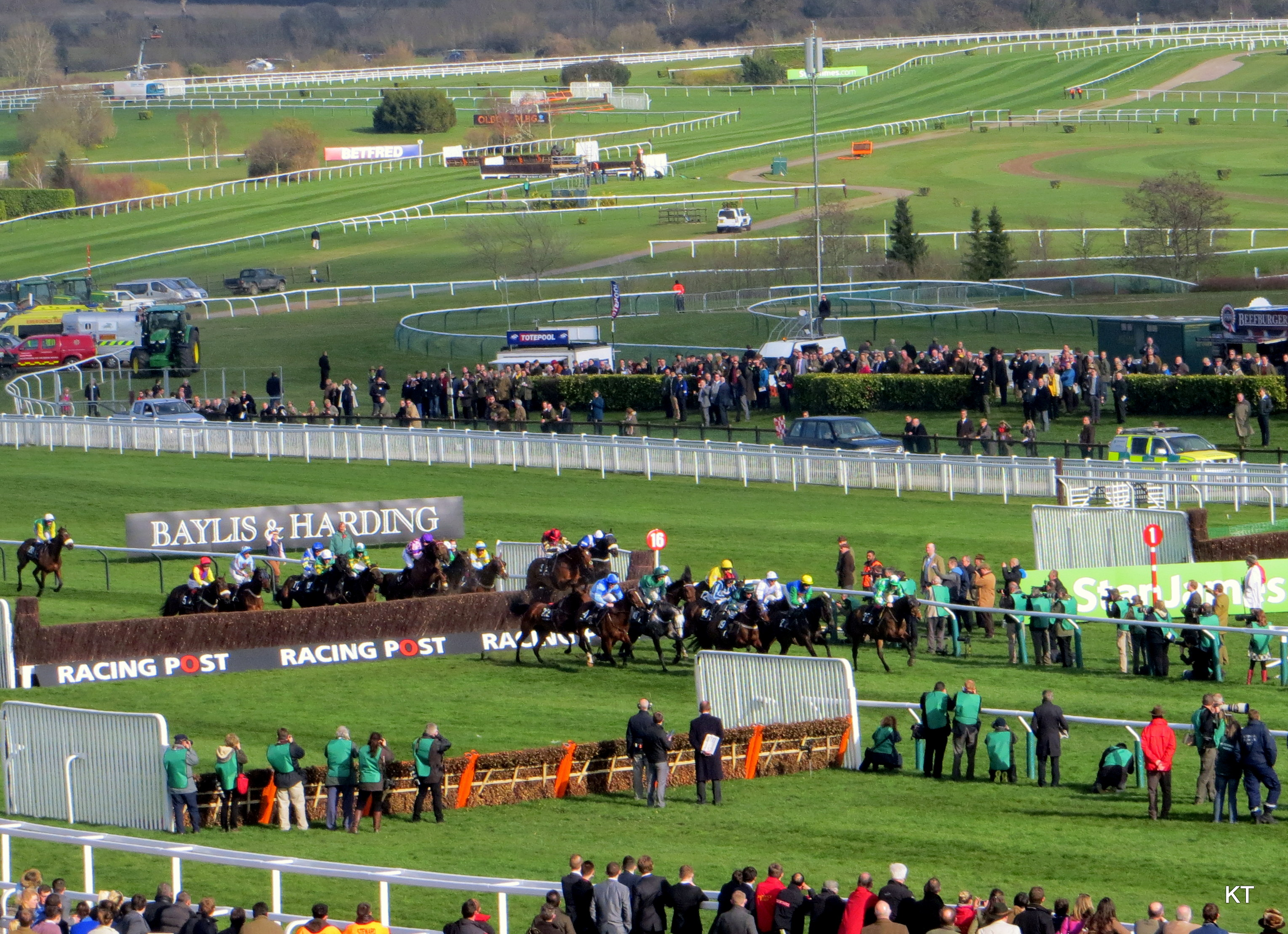 Handicap chase